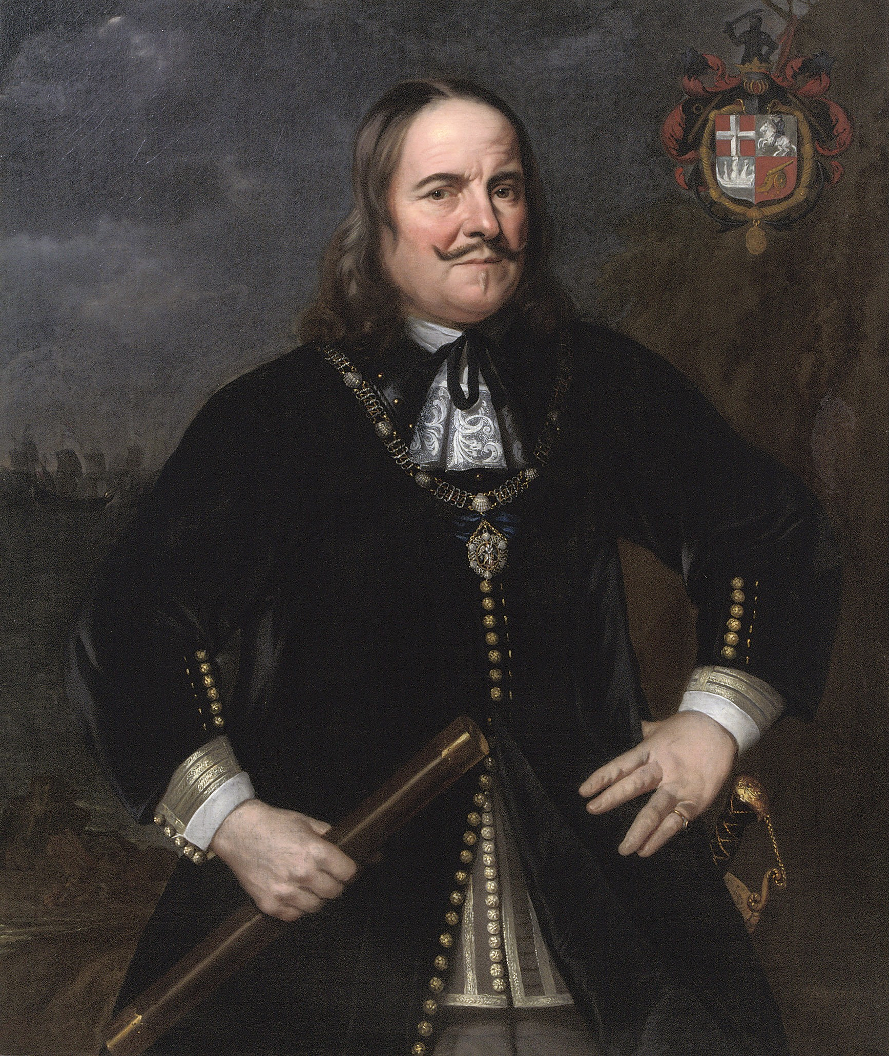 Portrait of Michiel de Ruyter (1607-1676), three-quarter-length, in a black costume with a lace jabot, holding a baton in his right hand, a seascape beyond